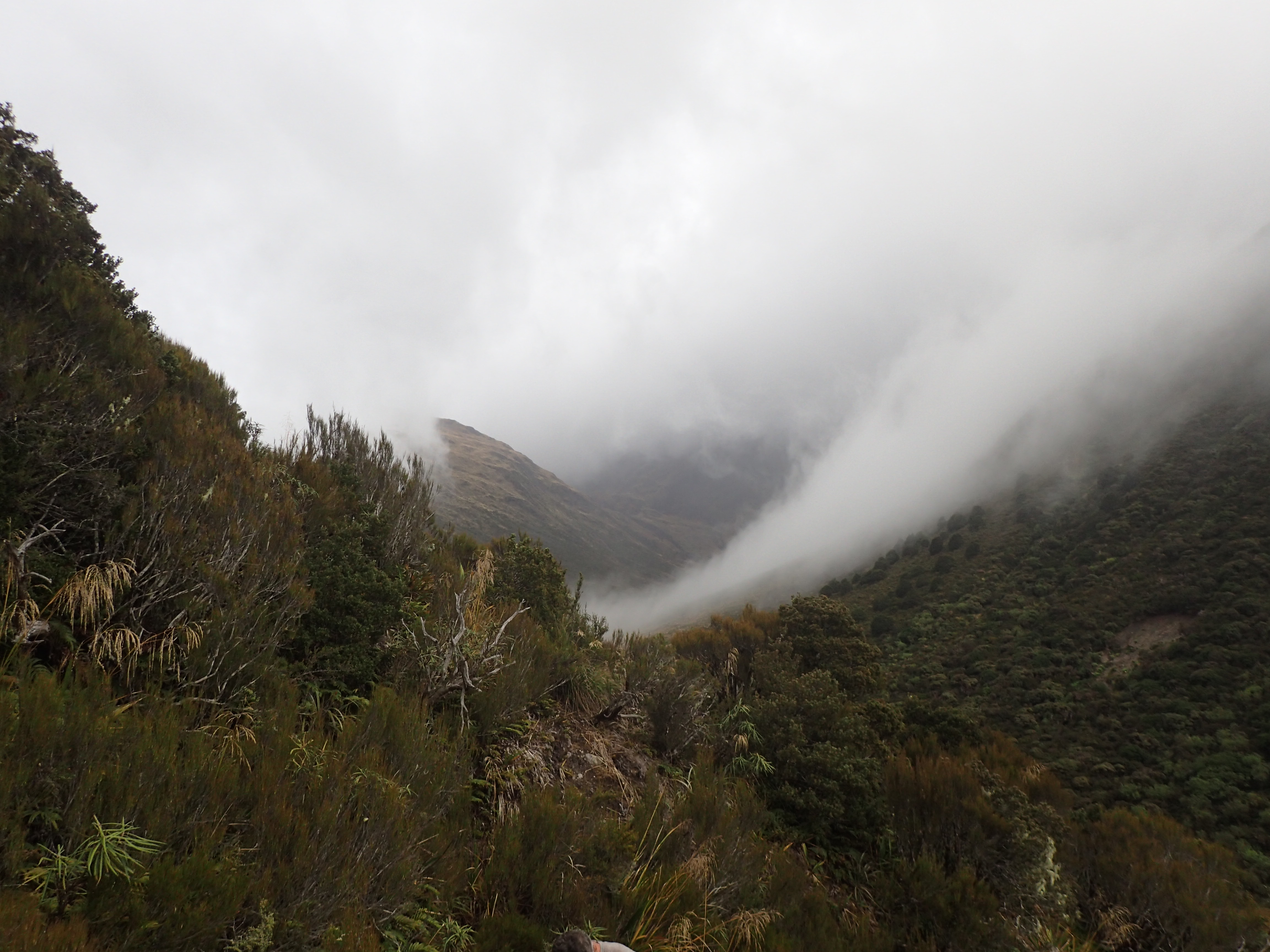 Hope Pass is the Headwater of the Hope River Canterbury New Zealand and connects the East and West Coast on the Main Divide